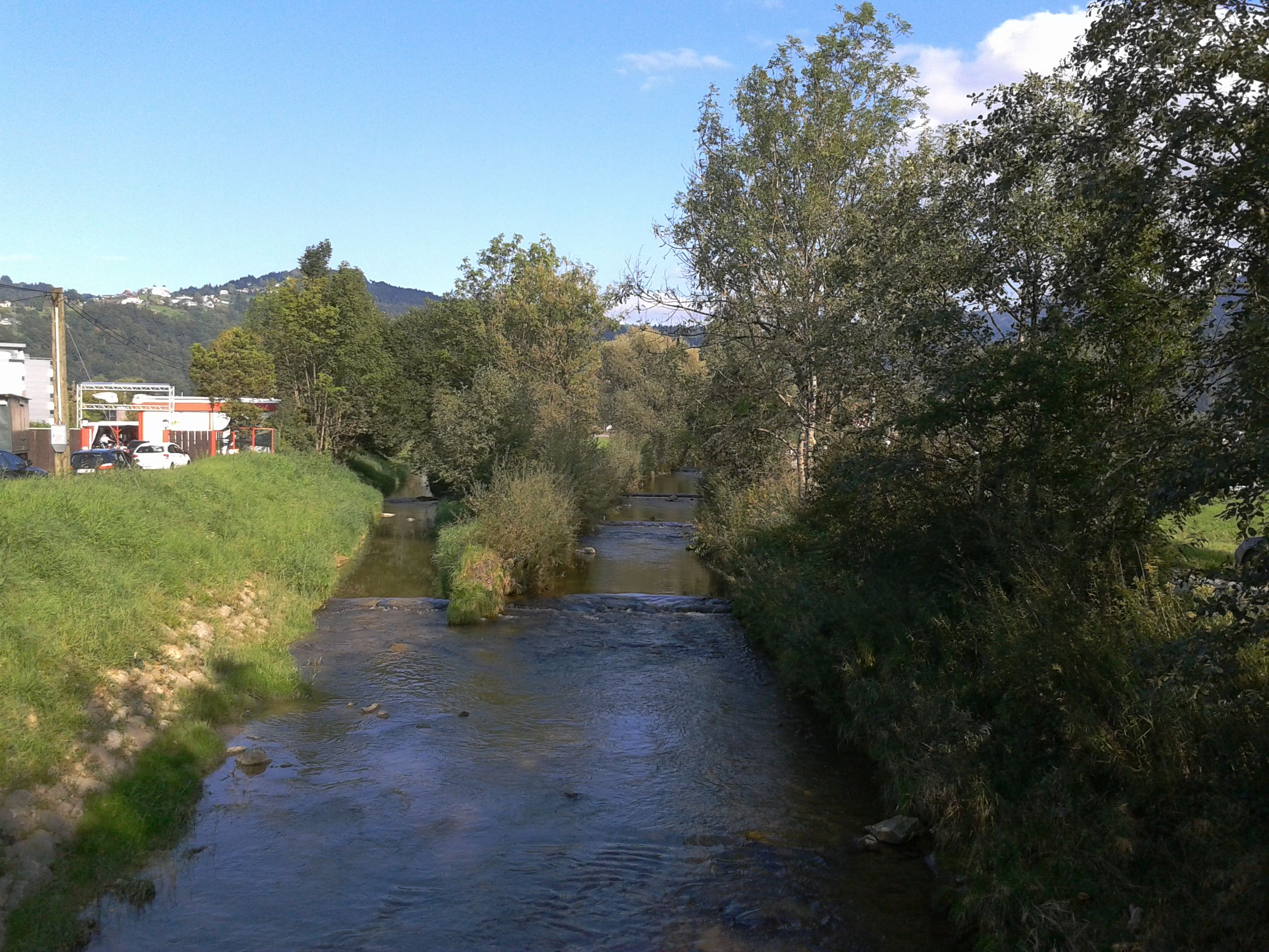 Rickenbach (rivulet) in the district of Rickenbach (Wolfurt), Vorarlberg, Austria - confluence with the Schwarzach. Rickenbach left - Schwarzach right side.